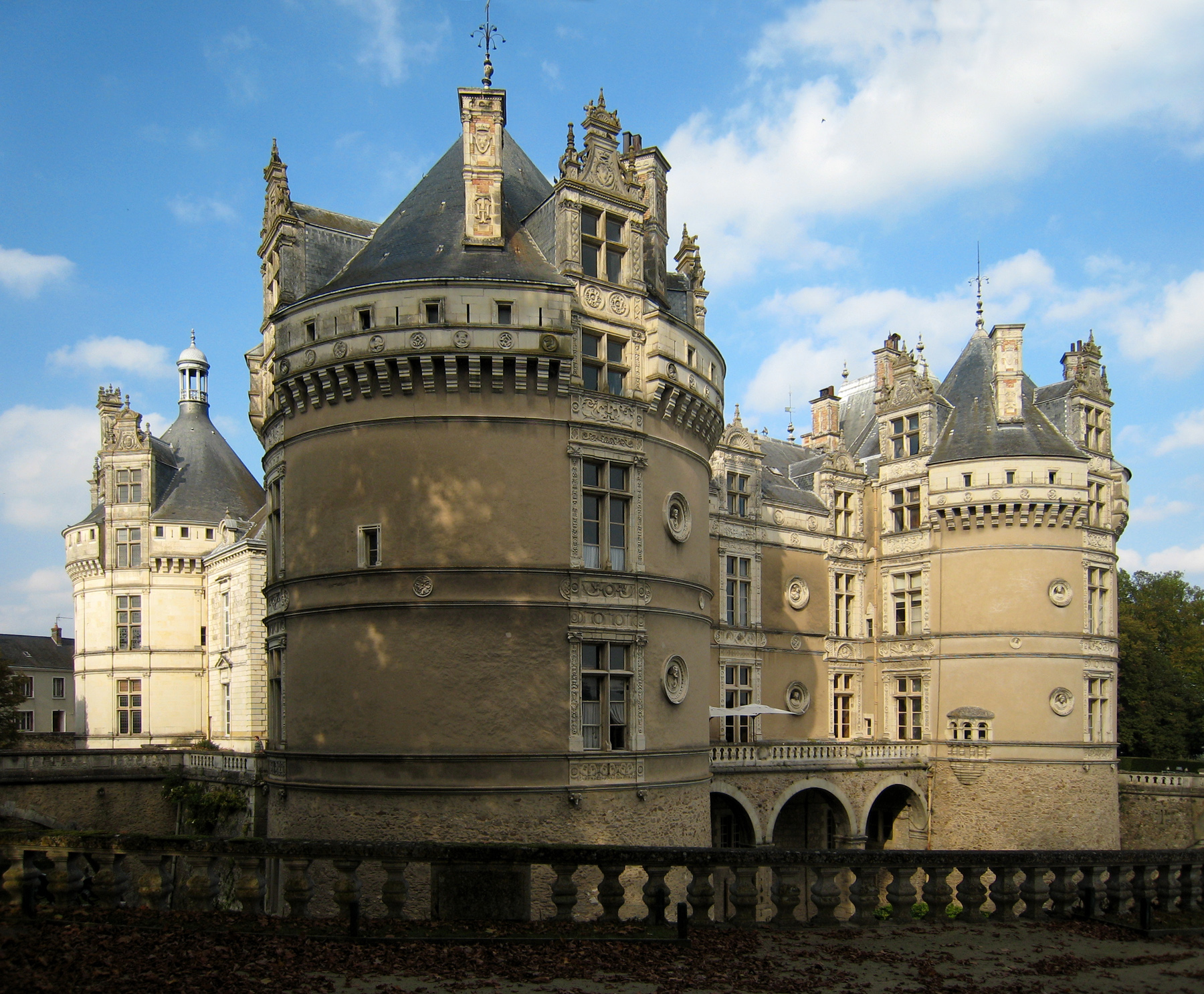 Castle Le Lude, located on the river Loir (not Loire) in the county of Sarthe/France